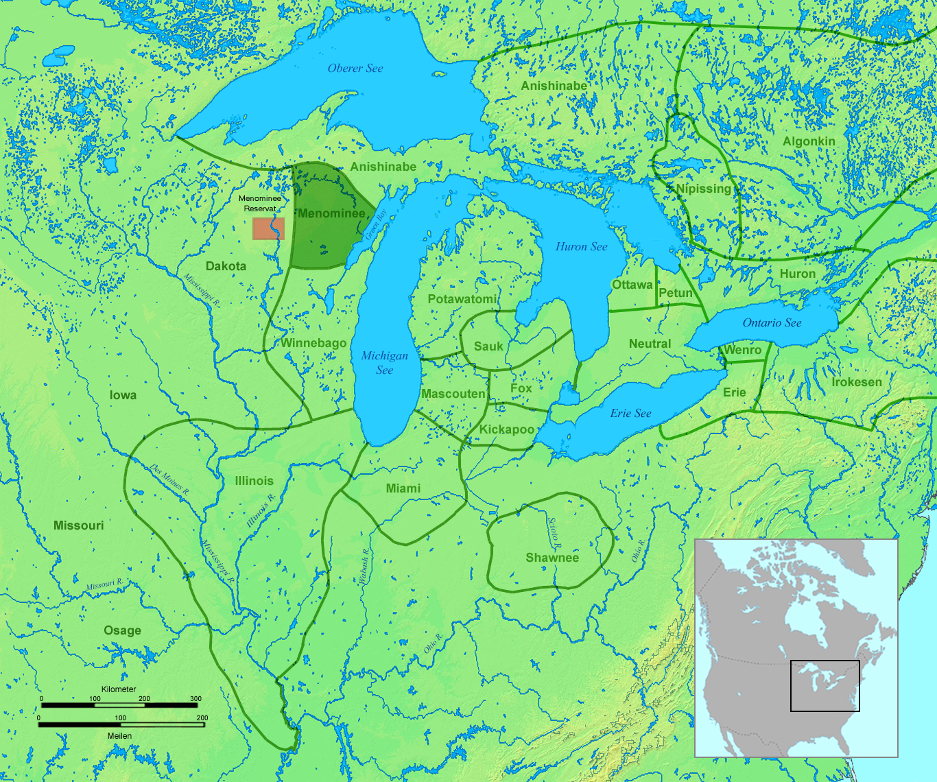 Tribal territory of Menominee probably before 1650